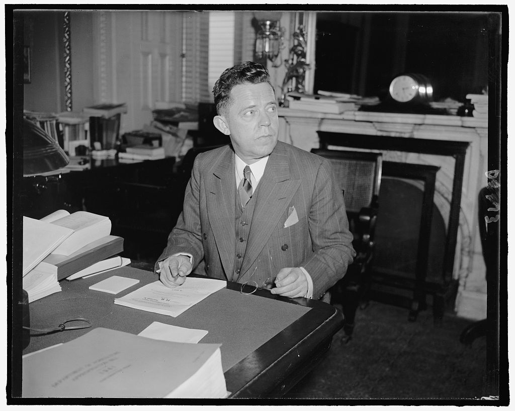 Rep. Ralph E. Church, Rep. of Ill., Feb. 1940